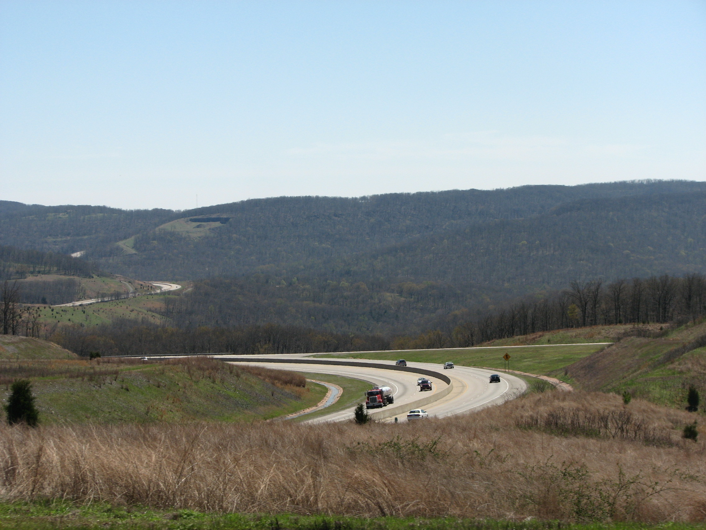 Interstate 540 winds through the Ozarks near Winslow, Arkansas.